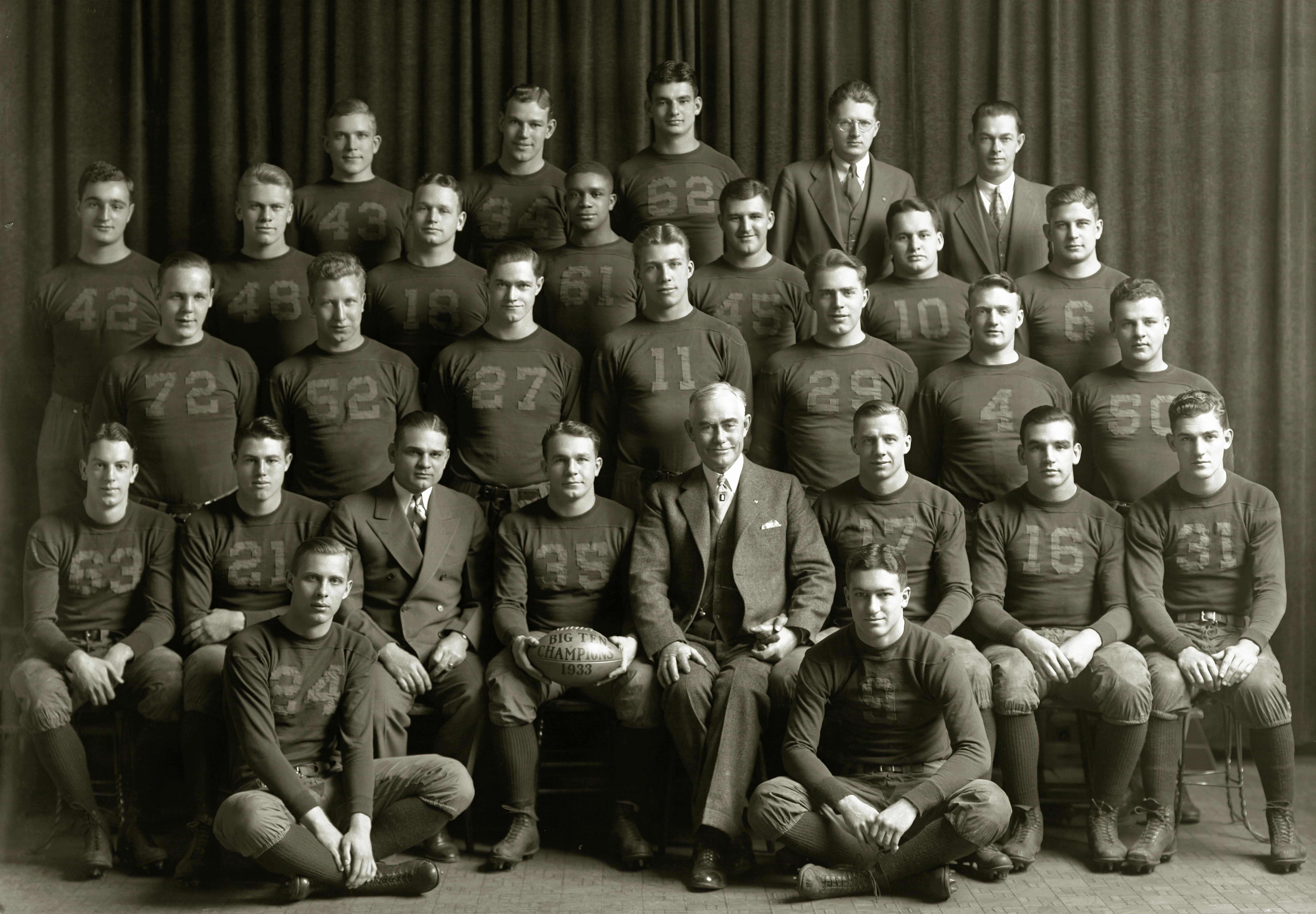 Photograph of 1933 Michigan Wolverines football team Back row (left to right): Russell D. Oliver, Harvey Chapman, Michael Savage, manager Raymond Fiske, trainer Ray Roberts Third row (left to right): John Viergever, Gerald Ford (No. 48), Russell Fuog, Willis Ward (No. 61), John Kowalik (No. 45), Chester Beard, Bill Borgmann (No. 6) Second row (left to right): Tage Jacobson, Tom Austin (No. 52), Chuck Bernard (No. 27), Francis Wistert (No. 11), Willard Hildebrand, Carl Savage, Oscar Singer First row (left to right): Bill Renner (No. 63), John Heston, Coach Harry Kipke, captain Stanley Fay (No. 35), athletic director Fielding H. Yost, Ted Petoskey (No. 17), John Regeczi (No. 16), Herman Everhardus (No. 31) Seated on floor (left to right): Estel Tessmer, Louis Westover This work is in the public domain because it was published in the United States between 1925 and 1963 and although there may or may not have been a copyright notice, the copyright was not renewed. Unless its author has been dead for the required period, it is copyrighted in the countries or areas that do not apply the rule of the shorter term for US works, such as Canada (50 pma), Mainland China (50 pma, not Hong Kong or Macao), Germany (70 pma), Mexico (100 pma), Switzerland (70 pma), and other countries with individual treaties. See Commons:Hirtle chart for further explanation. This work is in the public domain in the United States because it was published in the United States between 1925 and 1977, inclusive, without a copyright notice. For further explanation, see Commons:Hirtle chart as well as a detailed definition of "publication" for public art. Note that it may still be copyrighted in jurisdictions that do not apply the rule of the shorter term for US works (depending on the date of the author's death), such as Canada (50 p.m.a.), Mainland China (50 p.m.a., not Hong Kong or Macao), Germany (70 p.m.a.), Mexico (100 p.m.a.), Switzerland (70 p.m.a.), and other countries with individual treaties.